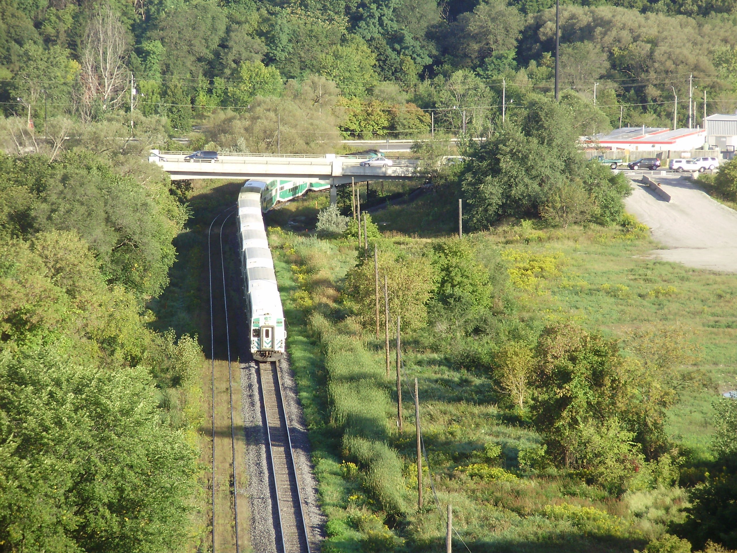 GO Transit's cab control car #222 leads its train south through the Don Valley on the Richmond Hill line, southbound for Union Station in Toronto, Ontario, Canada. Photographed from the north side of the Prince Edward Viaduct. The bridge is part of the Bayview Extension connecting Bayview Avenue to the Don Valley Parkway.